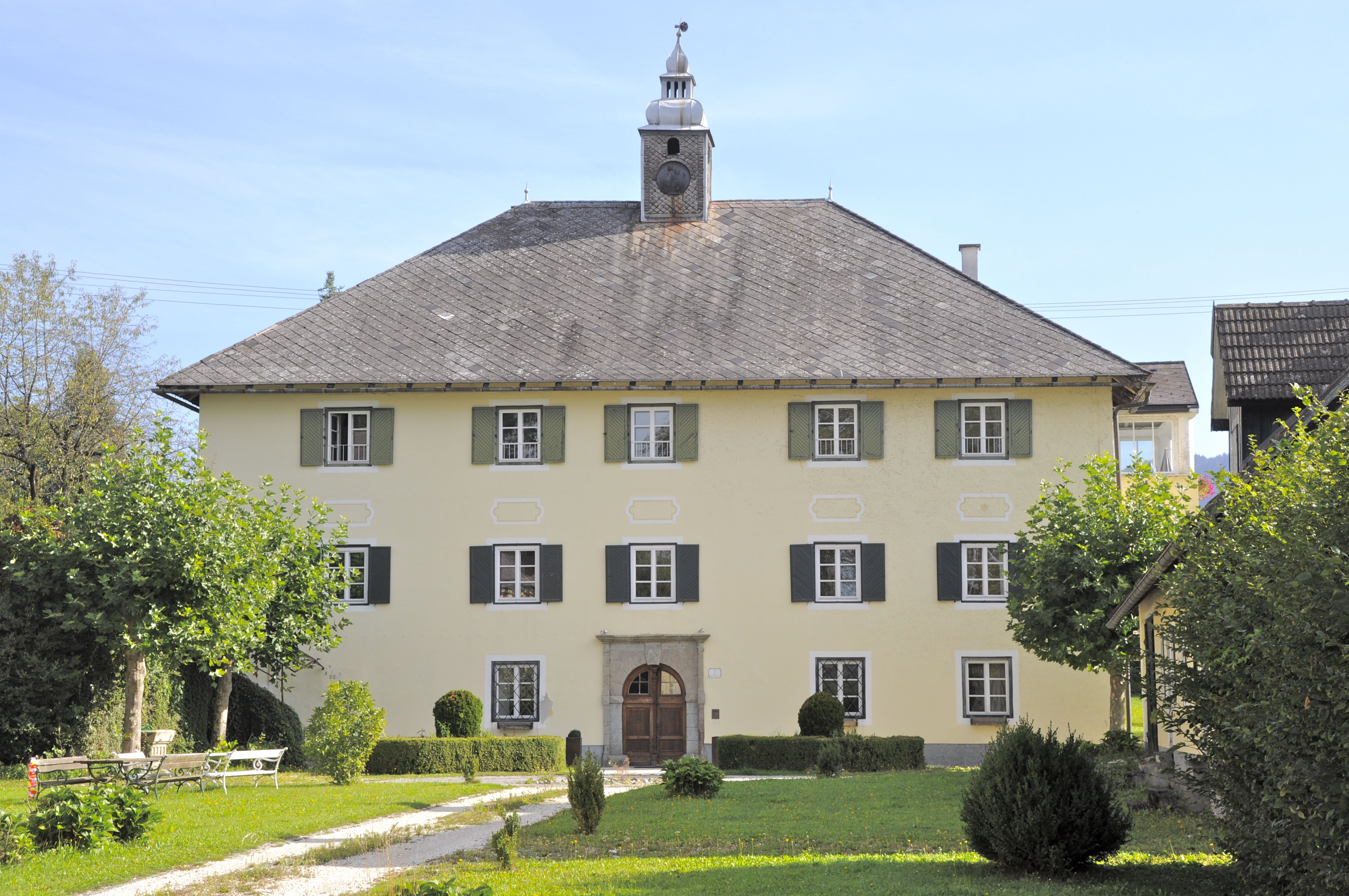 Castle in Eppersdorf #1, market town Brückl, district Sankt Veit an der Glan, Carinthia, Austria, EU